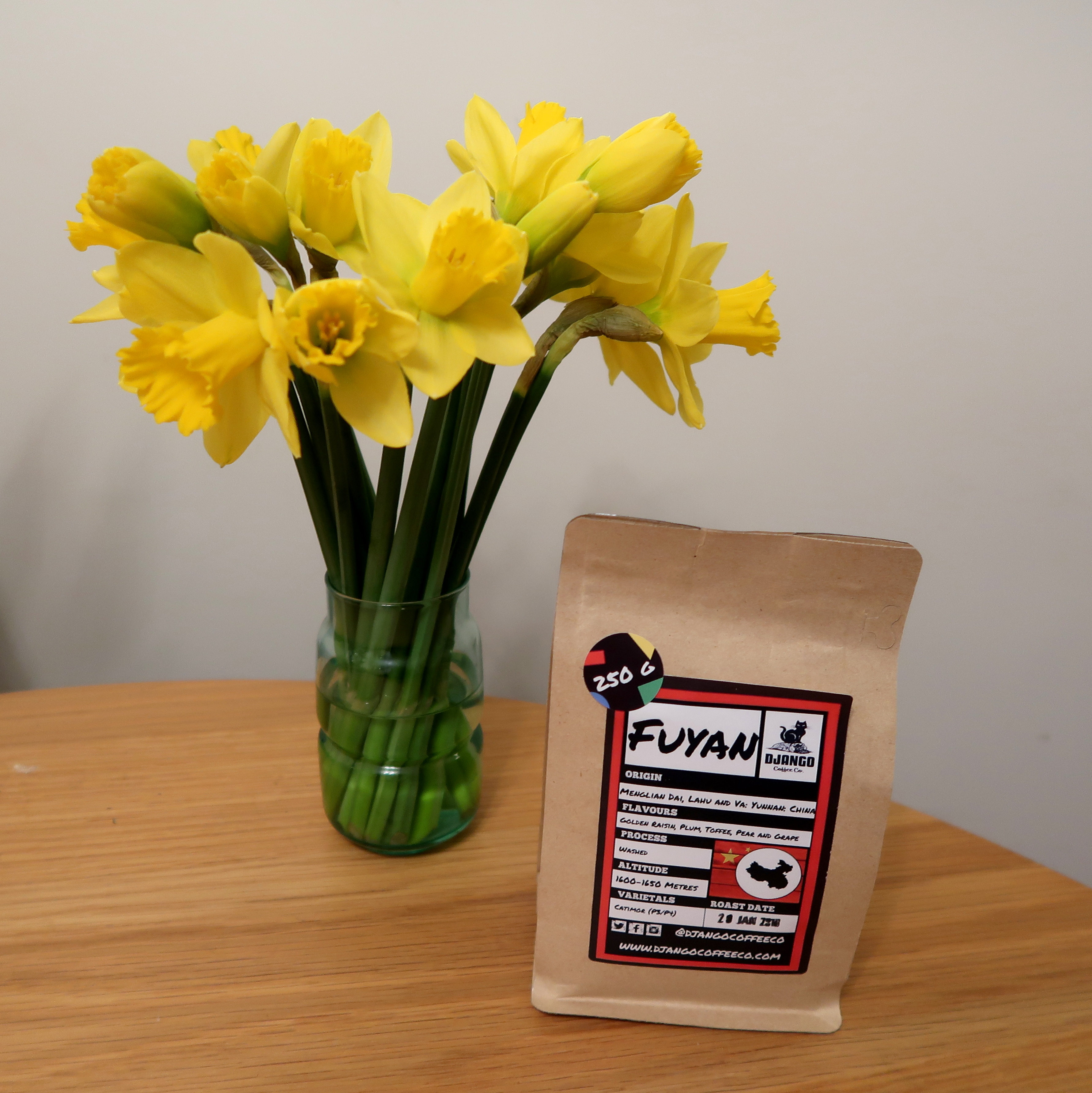 Django coffee from Yunnan China, part of the February Dog & Hat box